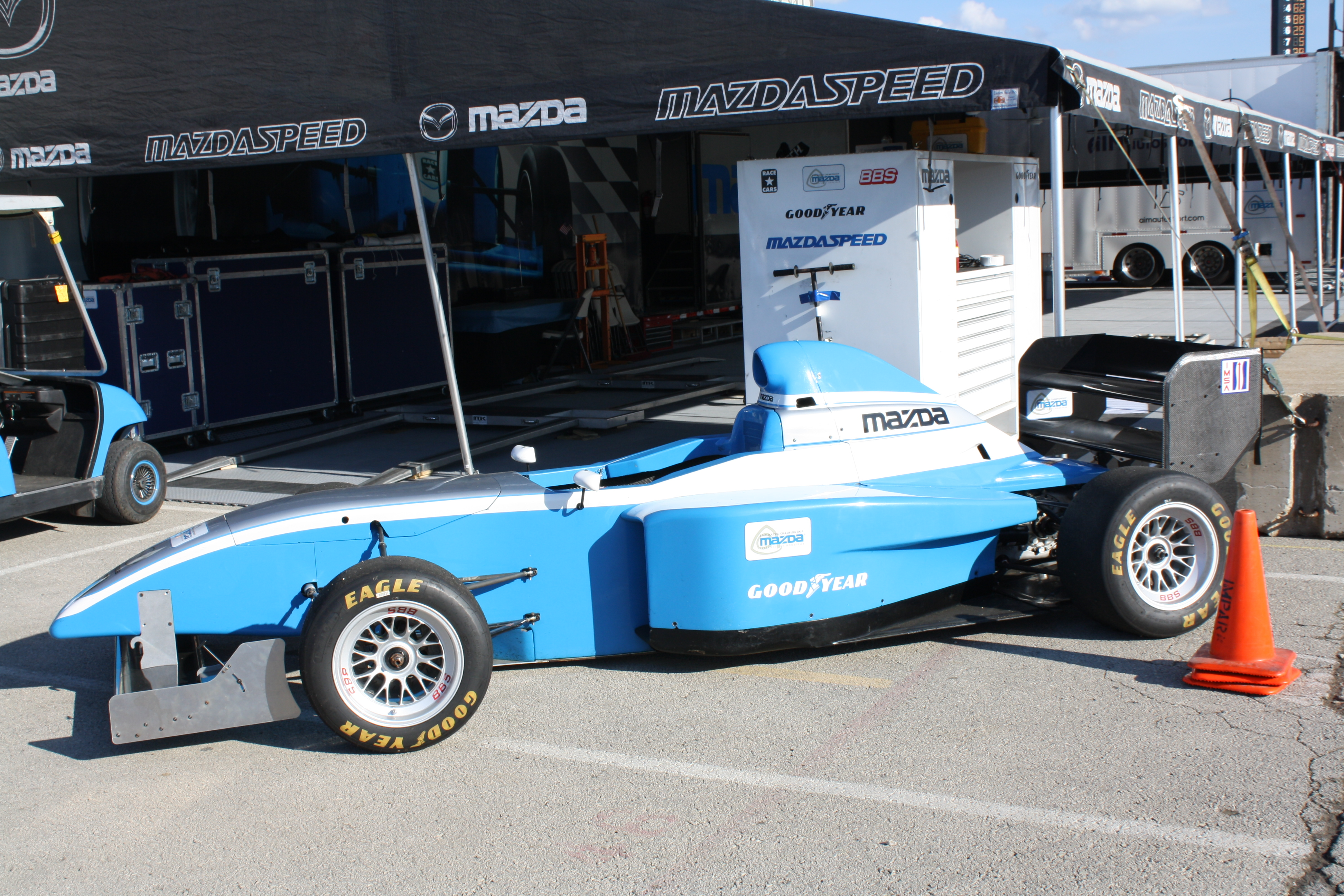 A Star Mazda Championship car at the Milwaukee Mile in June 2009.